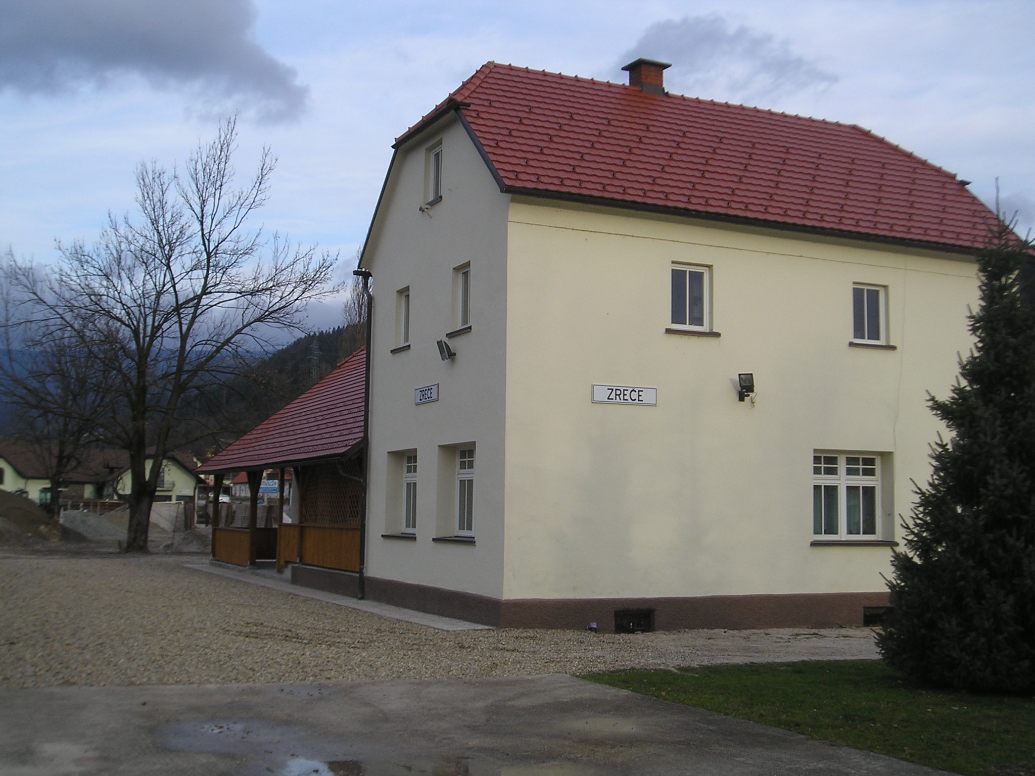 Former train station in Zreče, Slovenia. Building renovated in November 2009